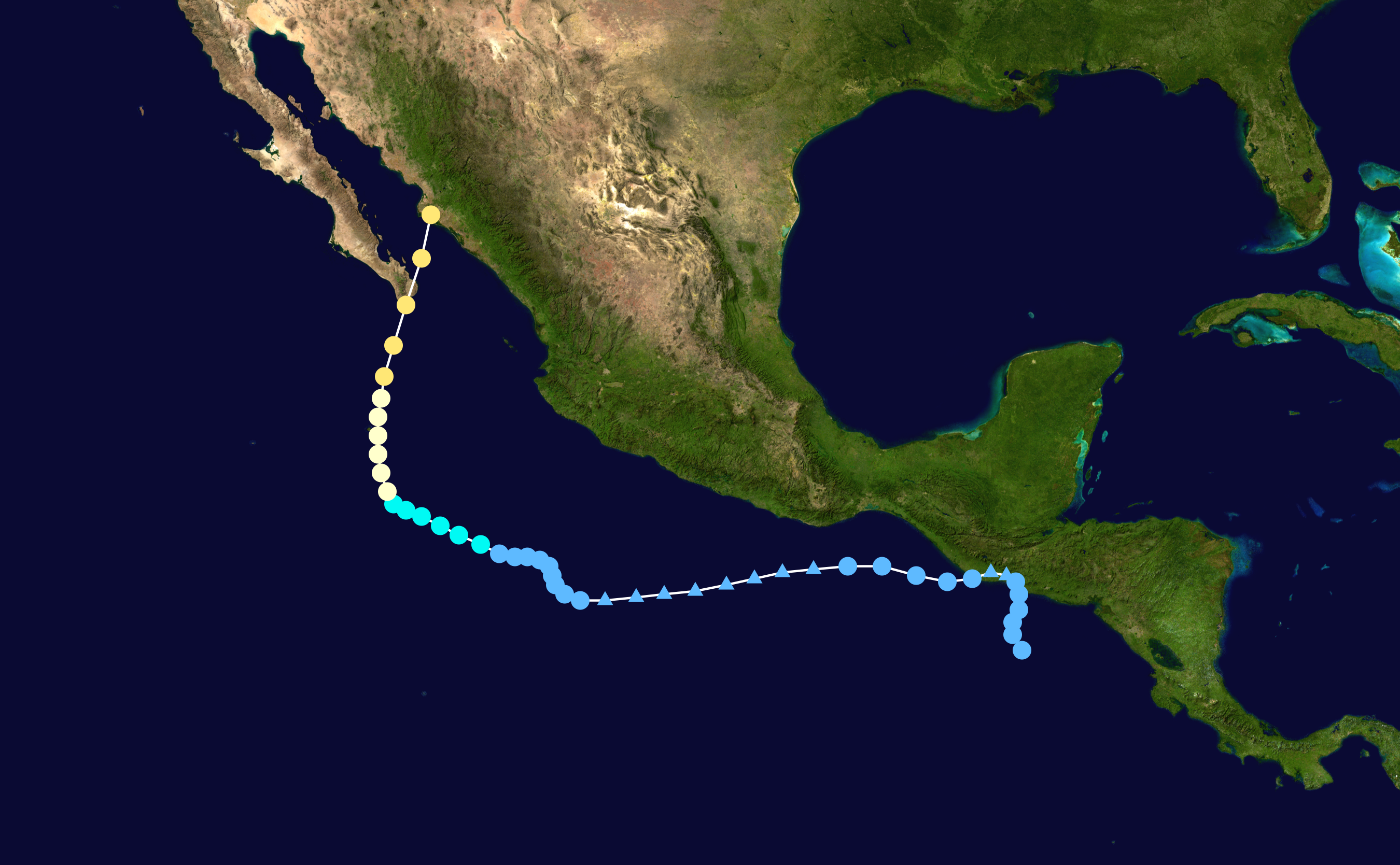 Hurricane Paul (1982) track. Uses the color scheme from the Saffir-Simpson Hurricane Scale.